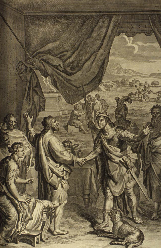 Isaac and Abimilech swear an oath of friendship to each other, as in Genesis 26:31, "And they rose up betimes in the morning, and sware one to another: and Isaac sent them away, and they departed from him in peace."; illustration from the 1728 Figures de la Bible; illustrated by Gerard Hoet (1648-1733) and others, and published by P. de Hondt in The Hague; image courtesy Bizzell Bible Collection, University of Oklahoma Libraries